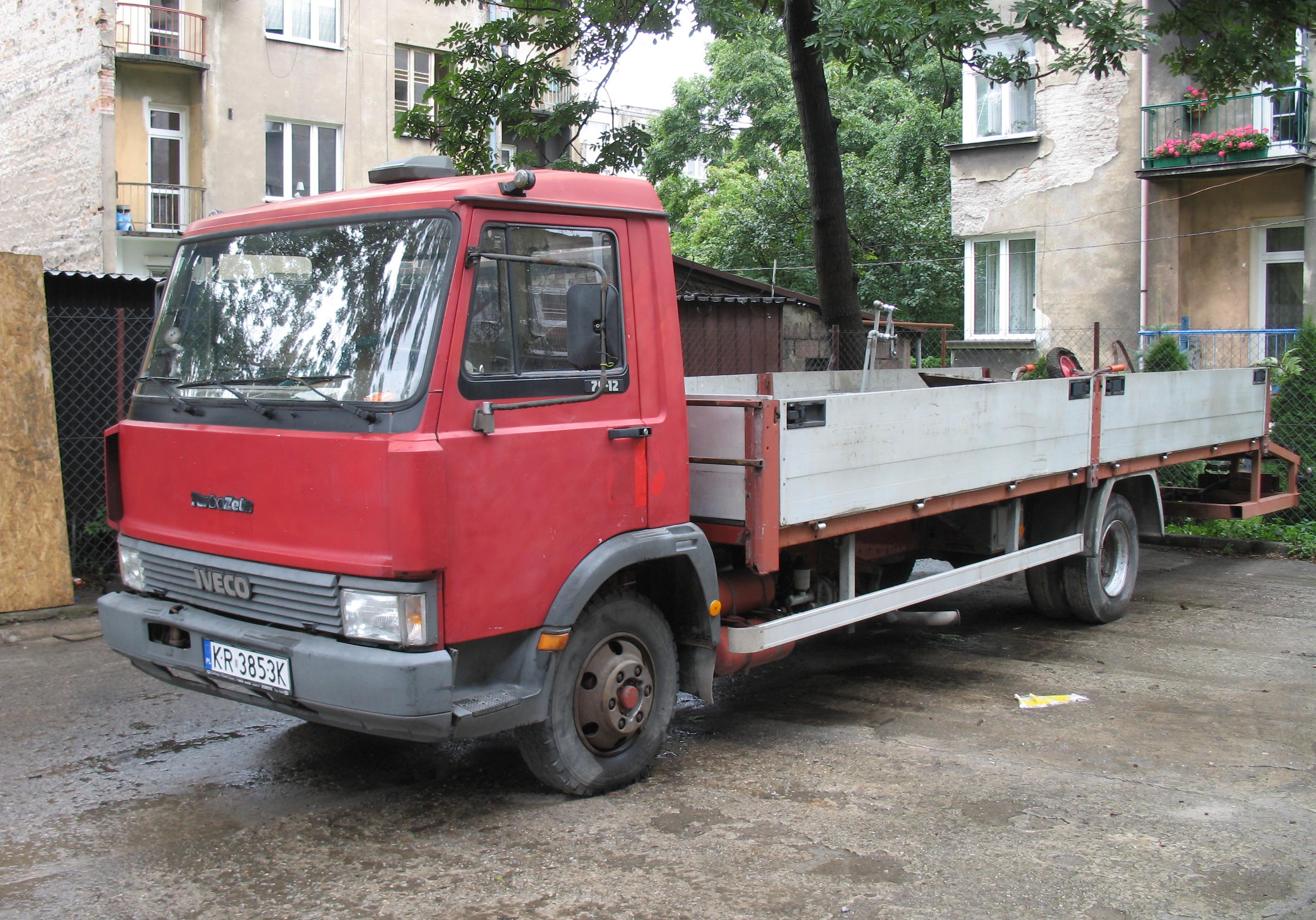 Iveco TurboZeta 79.12 truck in Kraków, Poland.